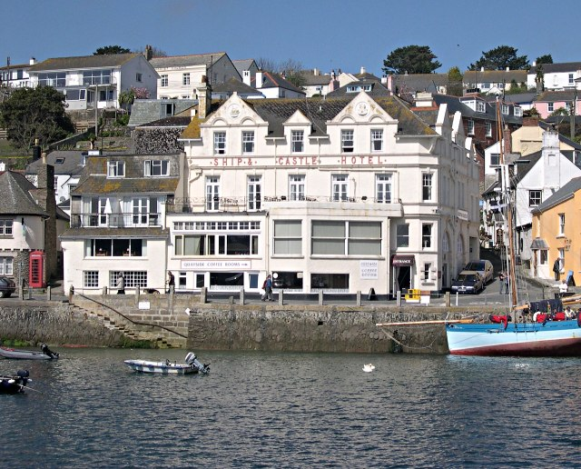 The Harbourside at St Mawes Taken from the passenger ferry from Falmouth arriving at St Mawes.